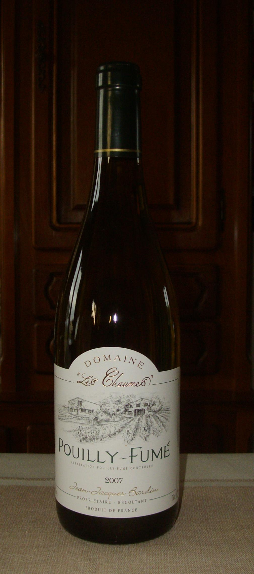 Bottle of Pouilly-Fume, wine of Val de Loire, France